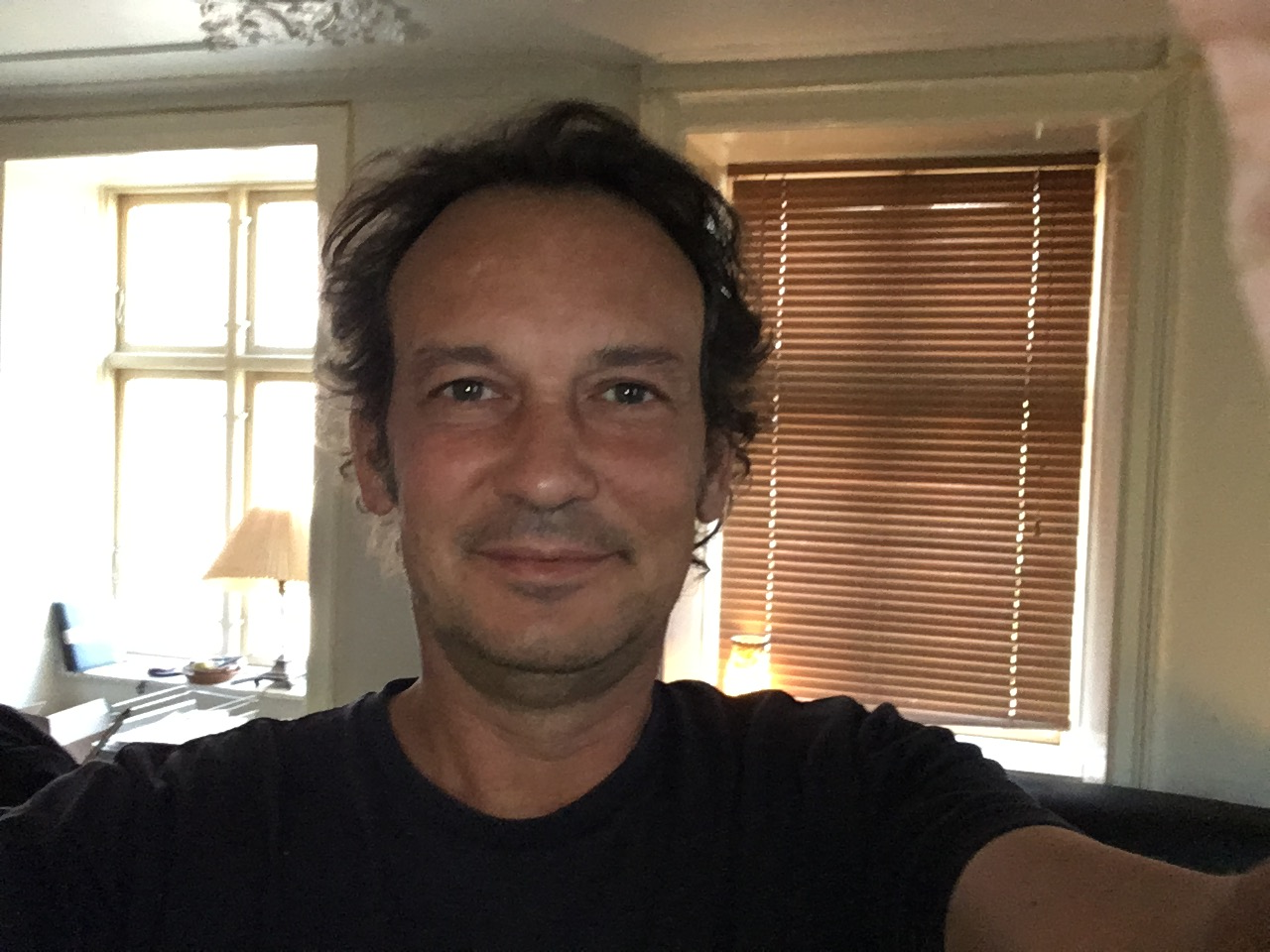 Nikolaj Egelund film composer